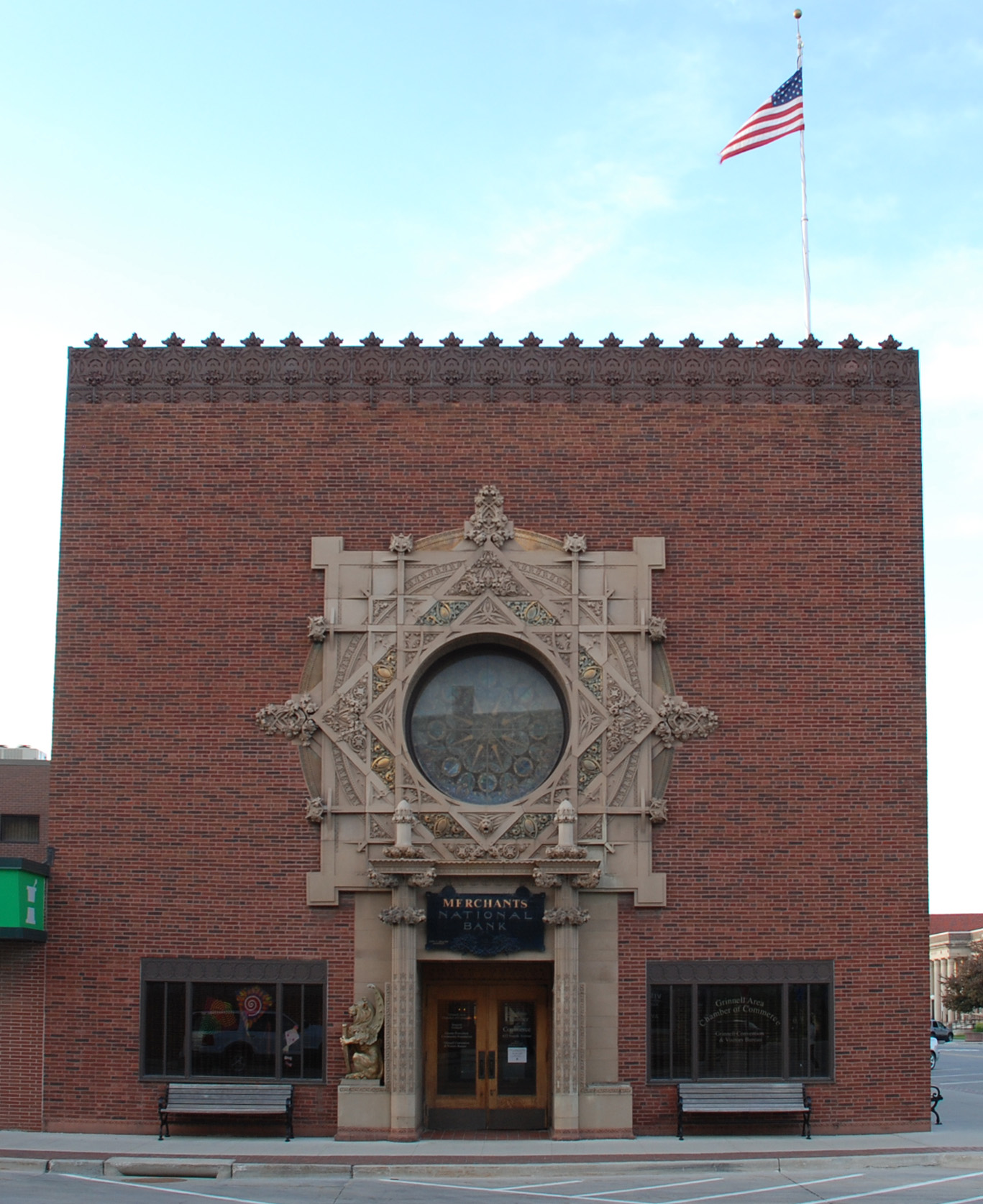 Merchants' National Bank designed by Louis Sullivan (Jewel Box)